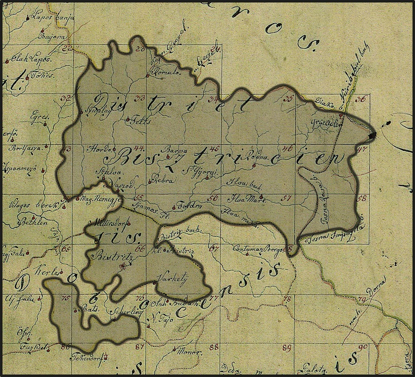 Bistritz District on King's ground in Transylvania